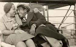 Photograph